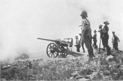 "Lieut. Burne's Guns firing at Spion Kop." Comment: The guns are QF 12 pounder 12 cwt naval guns mounted on improvised field carriages. The date would be late January 1900.